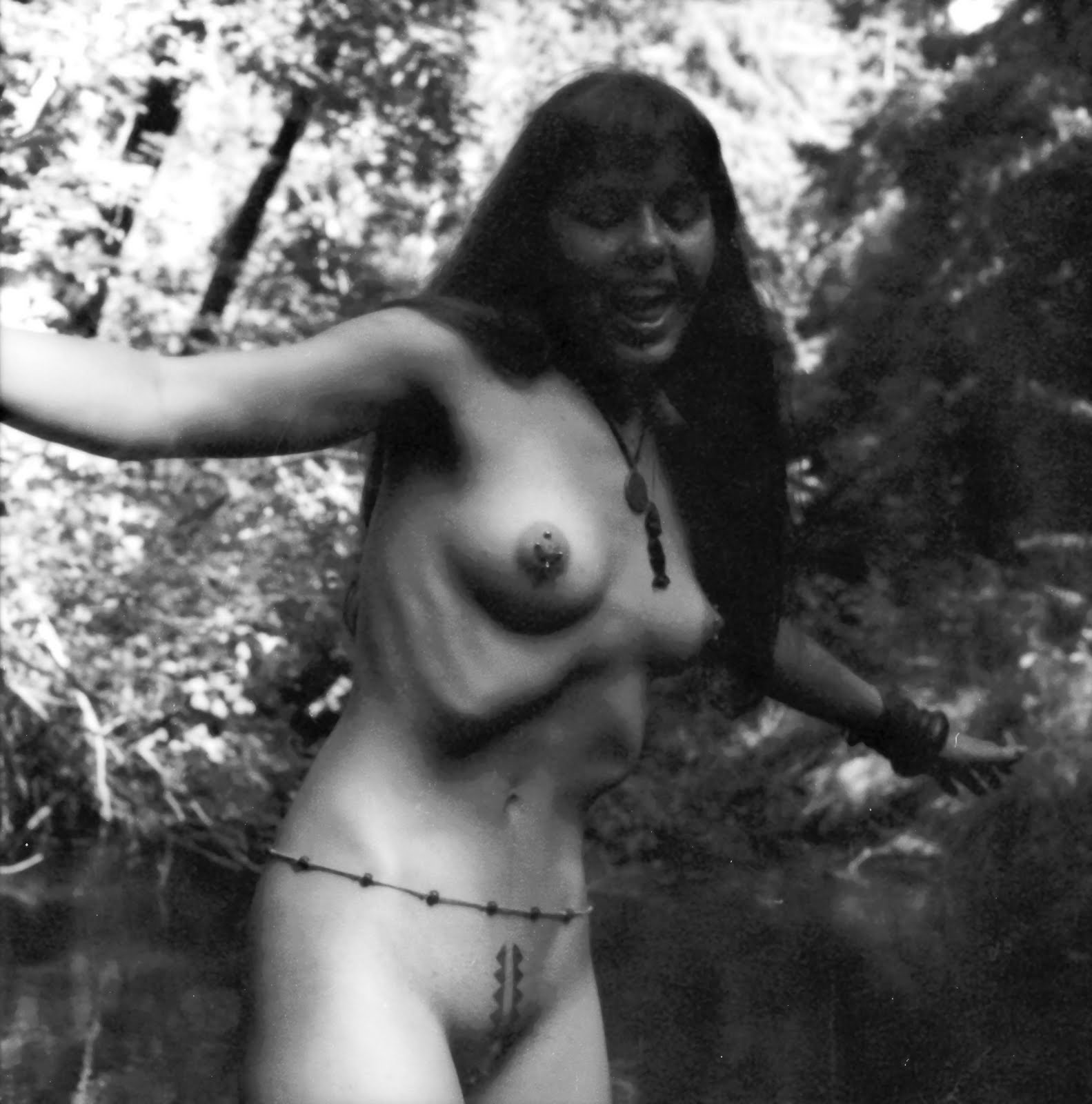 photograph of pierced and tattooed nude female modern primitive in California forest Photo by Robert Toren aka Photo Robert aka Angrylambie